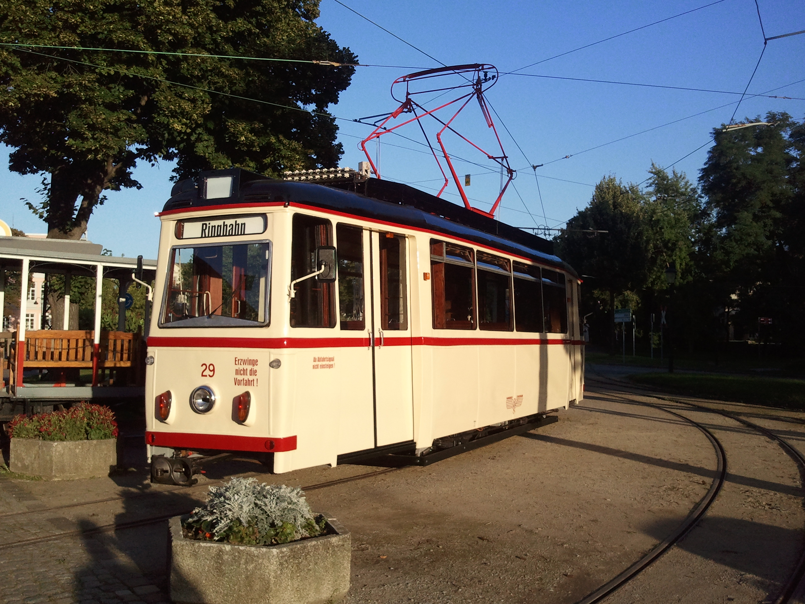 Tram car 29 after restauration in 2010